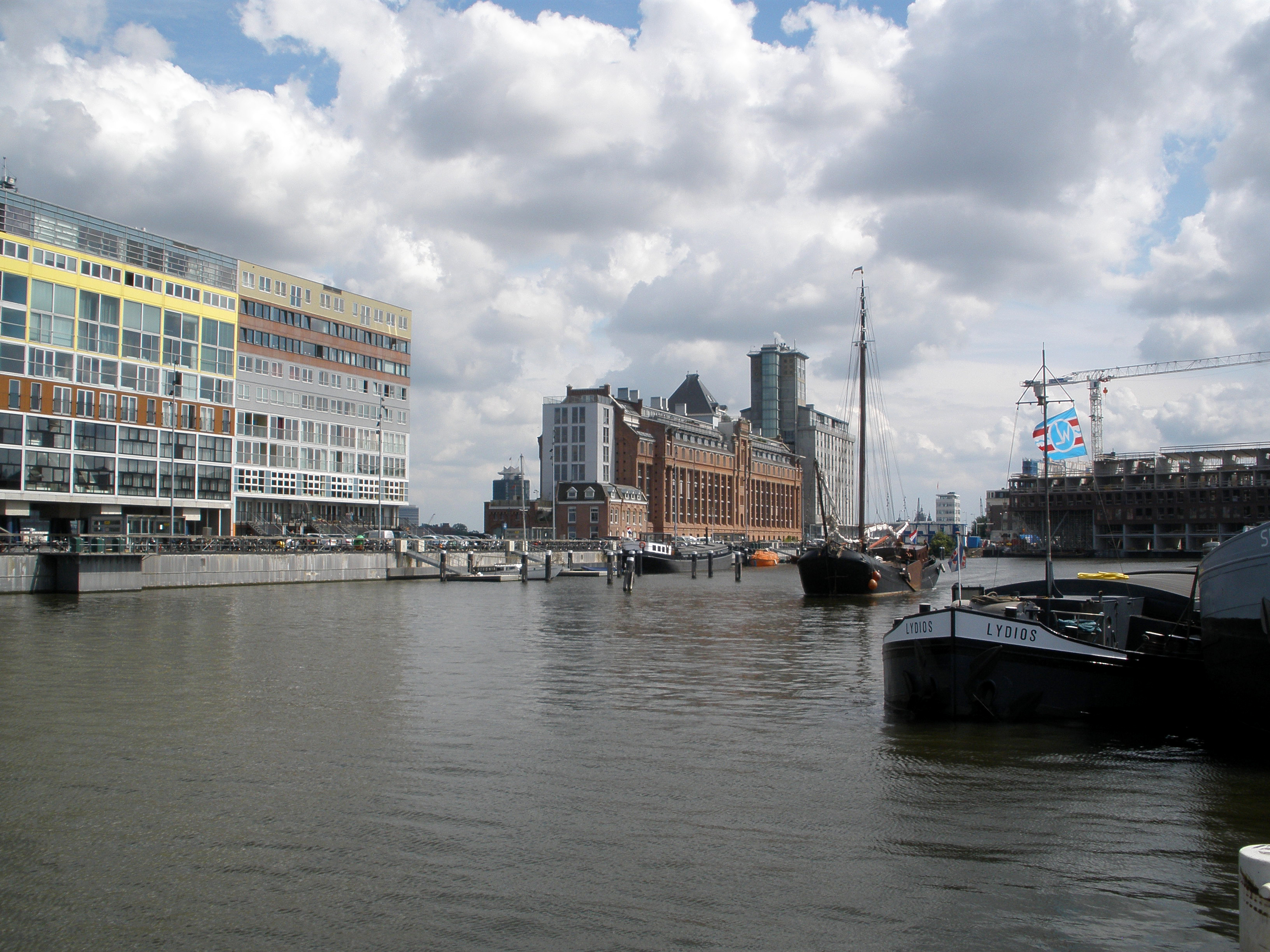 The Oude Houthaven, a harbour in Amsterdam. On the left, the 2002 building on the Silodam designed by agency MVRDV. Beyond that, two former grain silos converted into apartment buildings. On the right, a new building under construction.